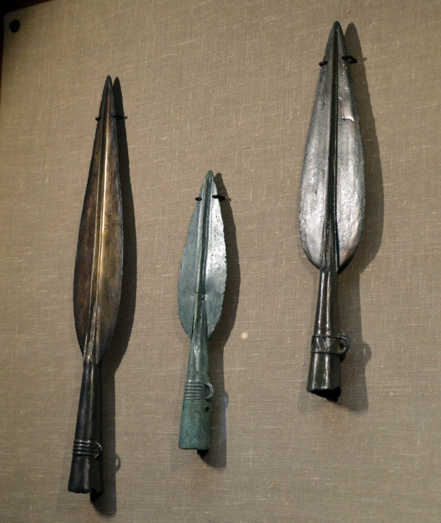 Bronze and silver spearheads, end of 3 - begin of 2 mill. BC, Perm' region.